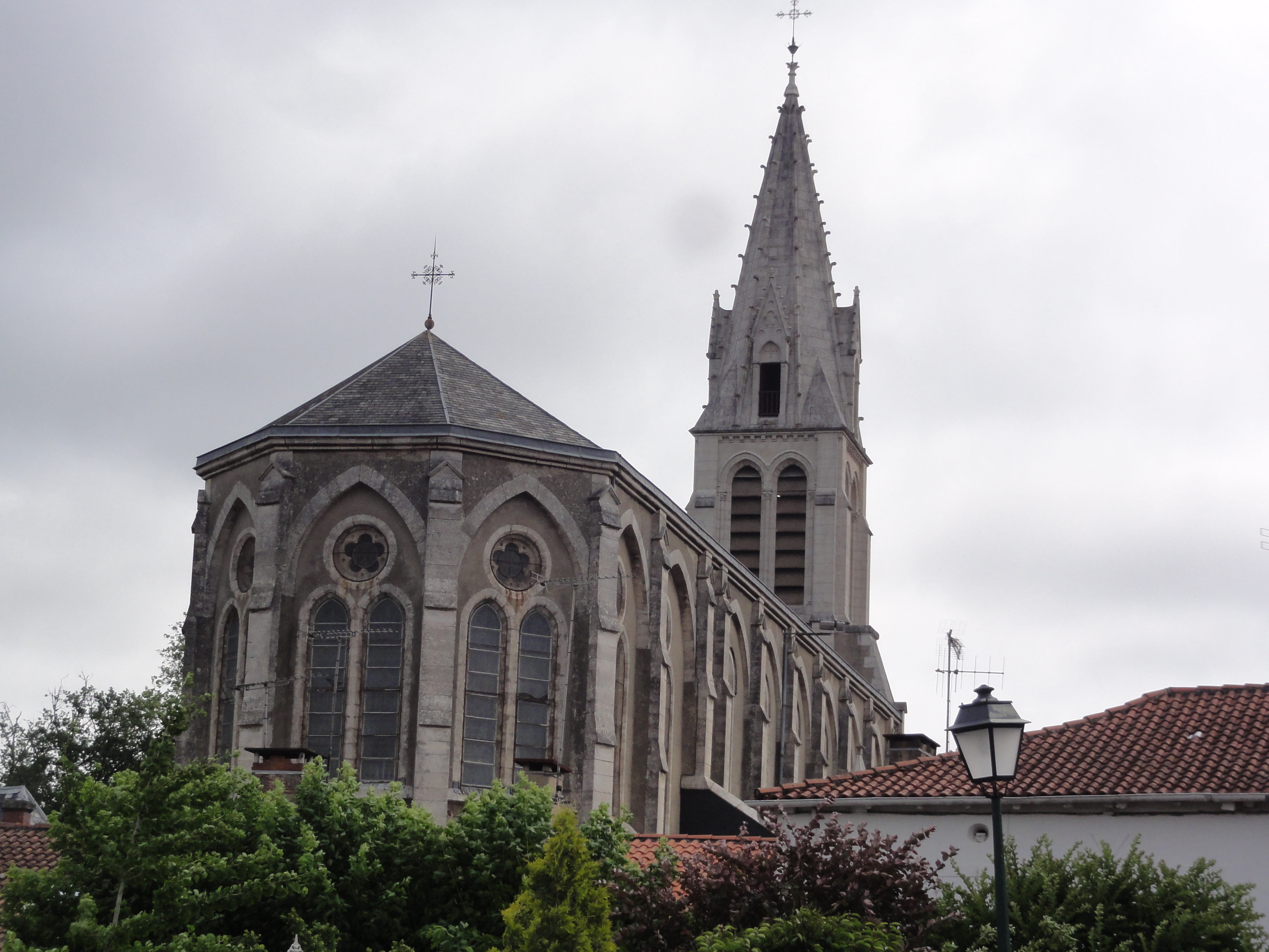 Soustons (Landes) église, chevet